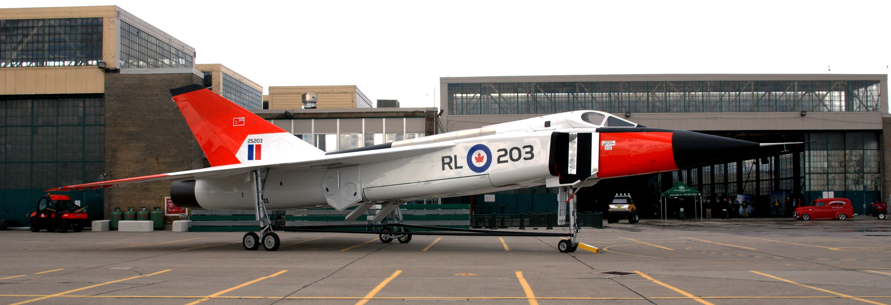 The Toronto Aerospace Museum's full size replica of CF-105 Arrow